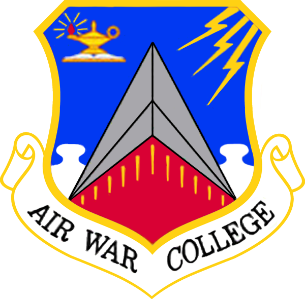 United States Air Force Air War College emblem. Made with Photoshop.